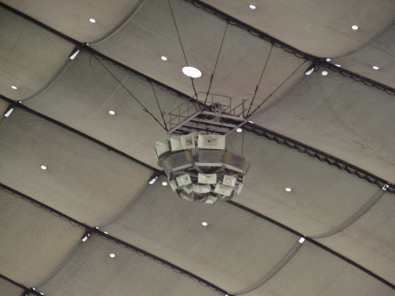 The Intercity Baseball Tournament 2007 Tokyo Dome